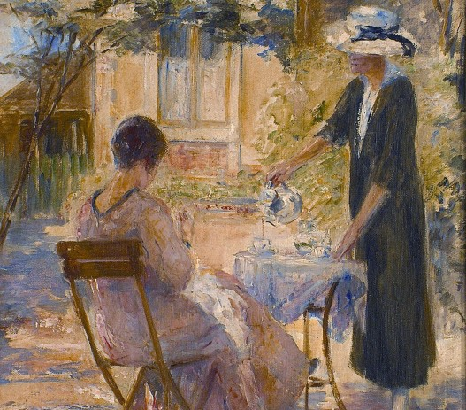 Letnji Dan